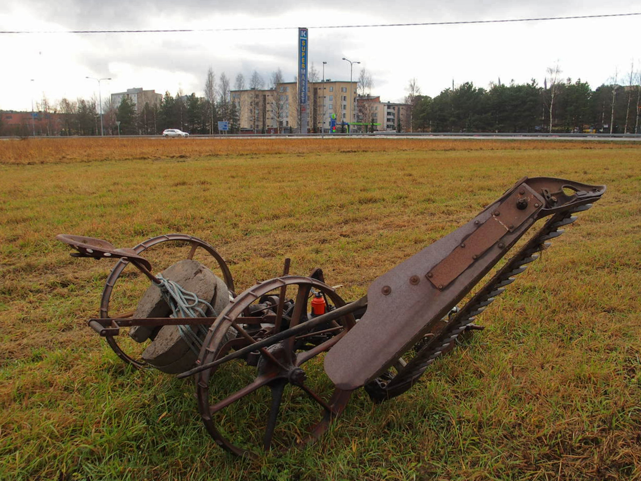 Mahittula village farmlands next to downtown Raisio in the background.